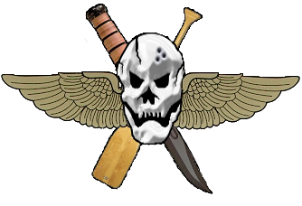 Amphibious Reconnaissance Company patch during World War II.